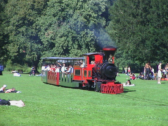 Schlossgartenbahn in Karlsruhe, Germany